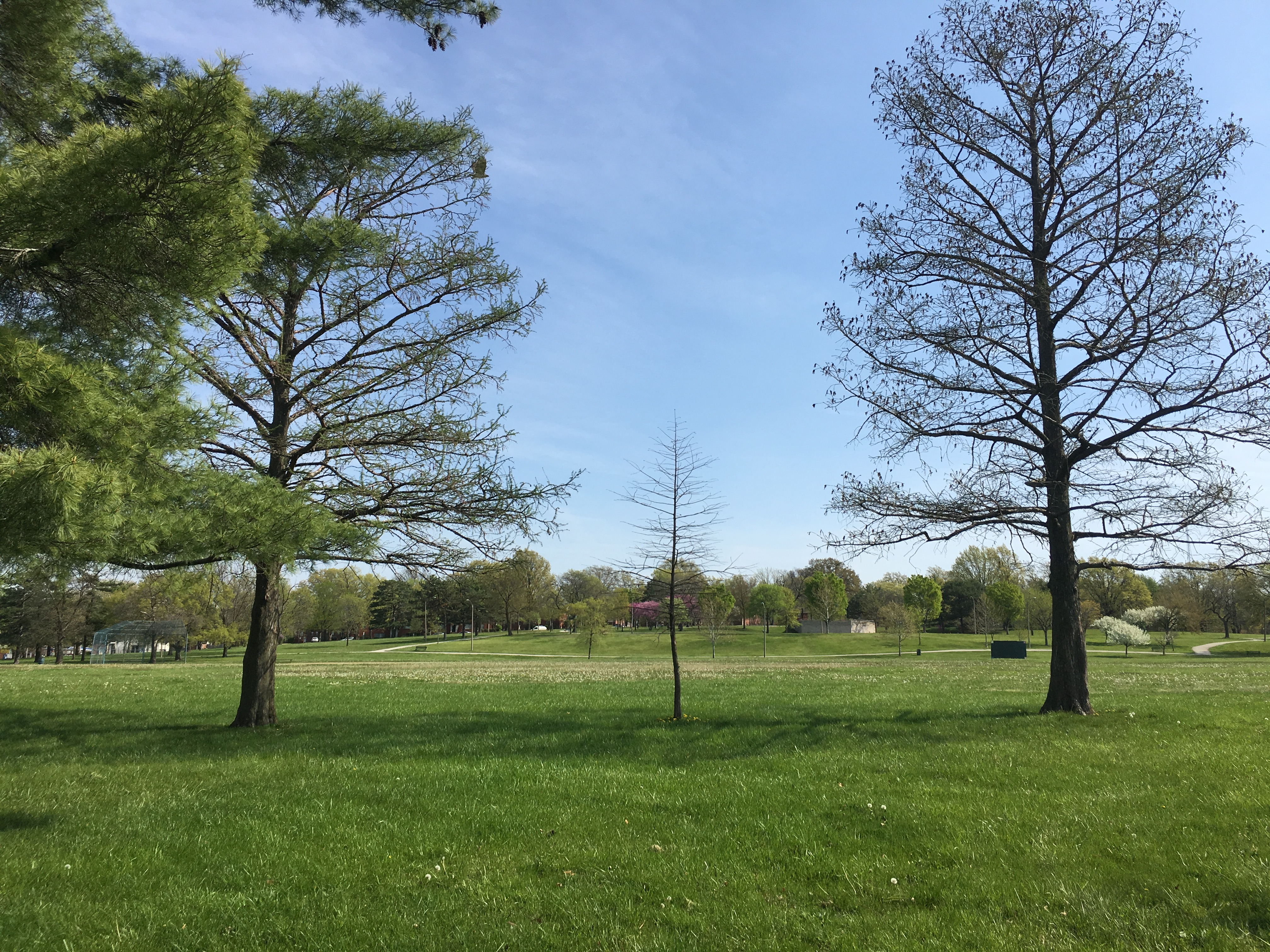 Tilles Park in St. Louis, Missouri (not to be confused with Tilles Park in St. Louis County, Missouri). Photo taken in May 2018.